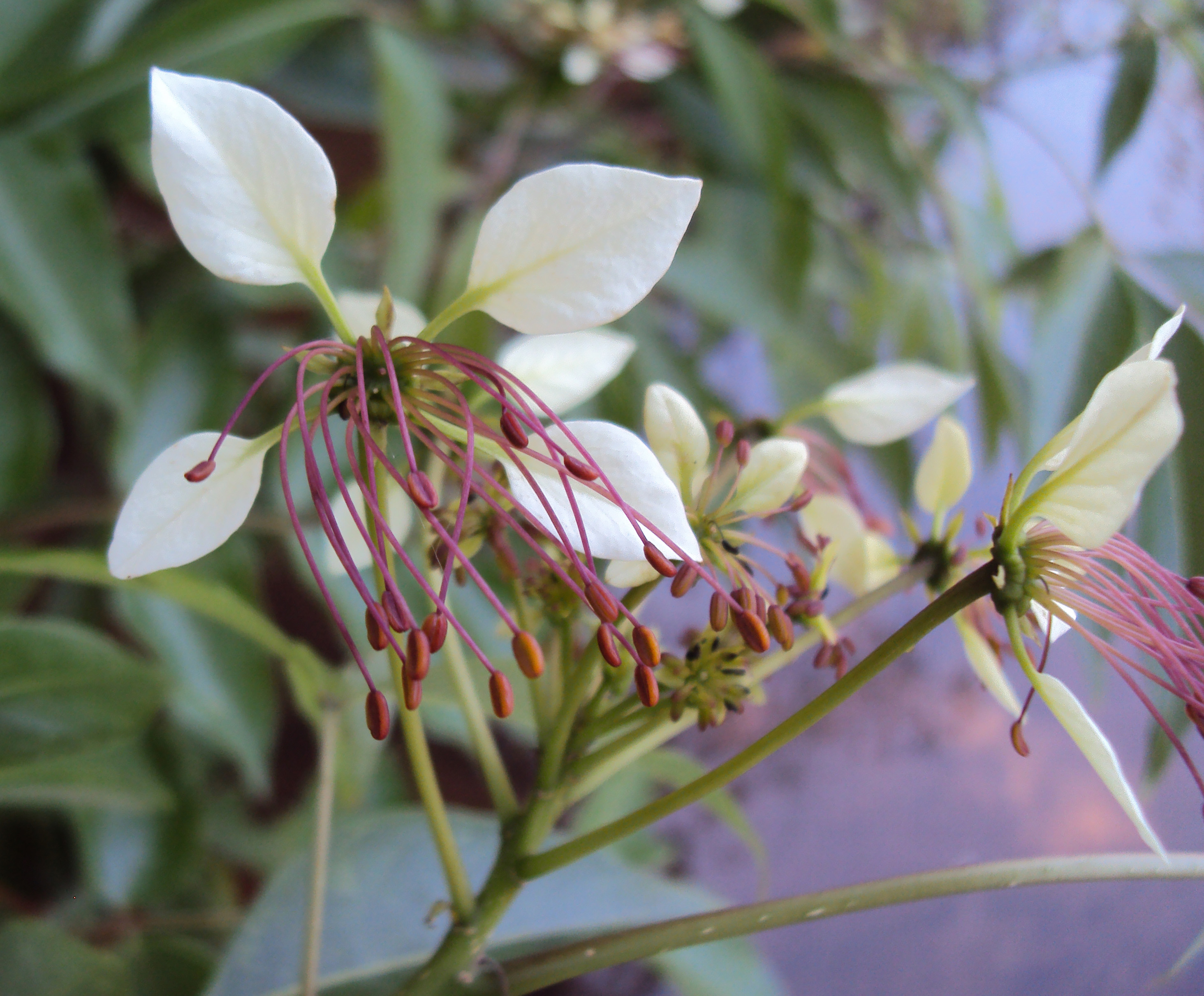 Crataeva magna